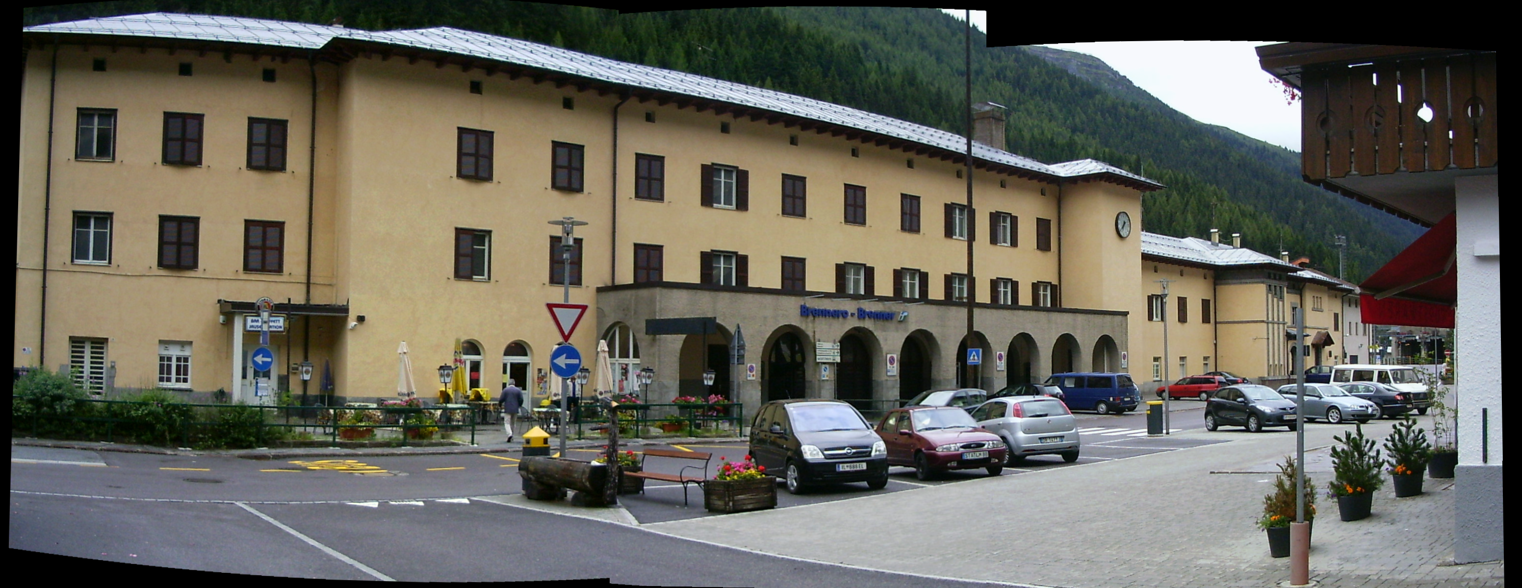 Brennero (it), train station, street side